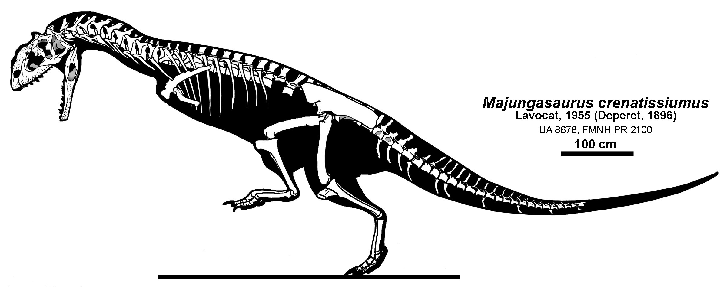 Skeletal reconstruction of Majungasaurus crenatissimus.